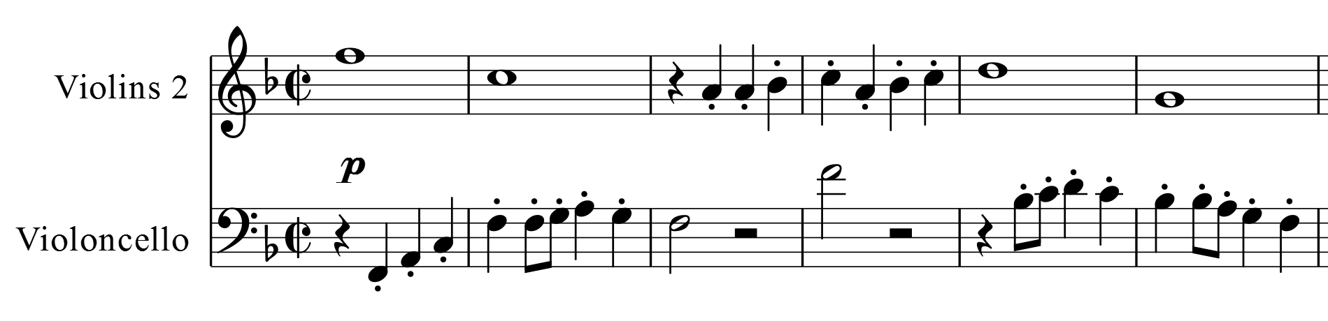 Joseph Haydn, Symphony No. 40, last movement, bar 1-6